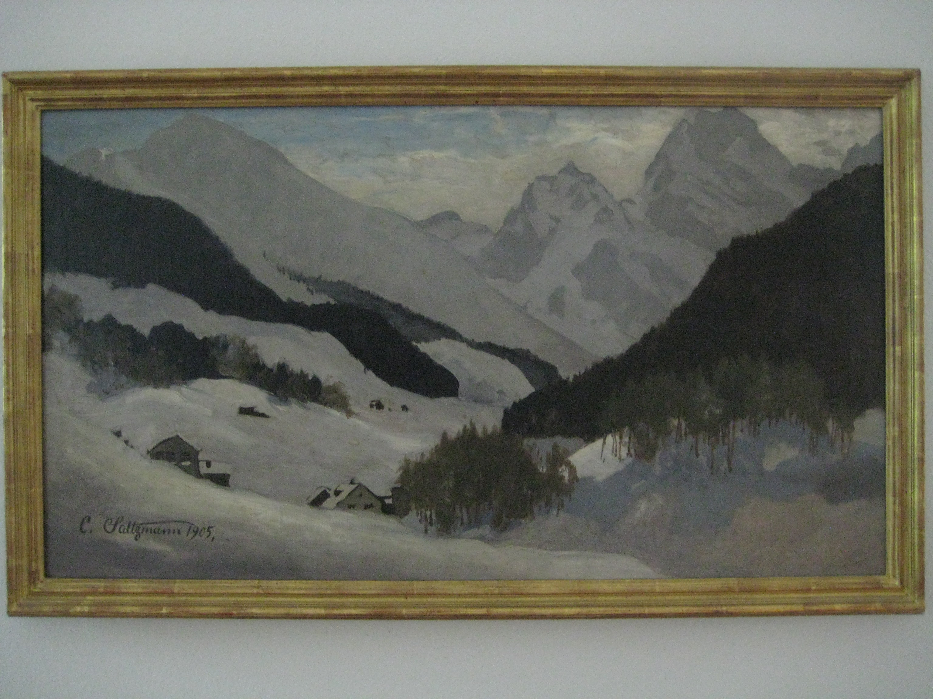 signed: C. Saltzmann 1905